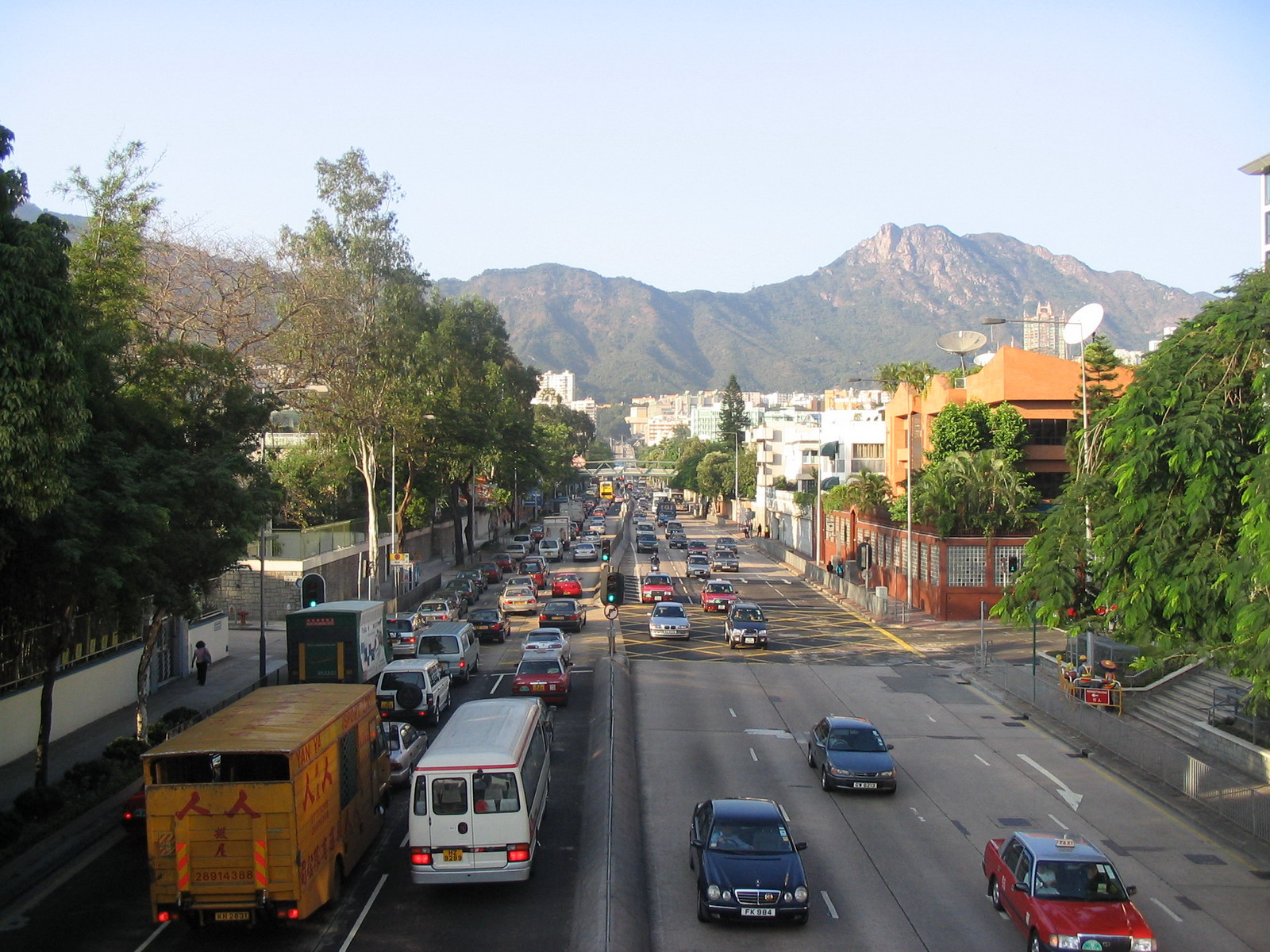 九龍塘-窩打老道 Waterloo Road, Kowloon Tong